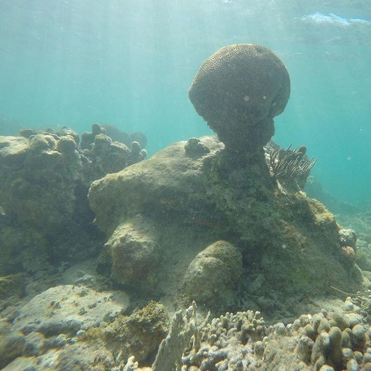 Picture of carols taken at St.Thomas